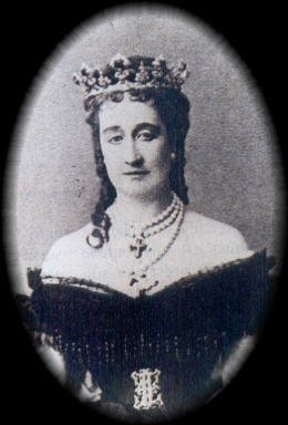 Eugénie de Montijo